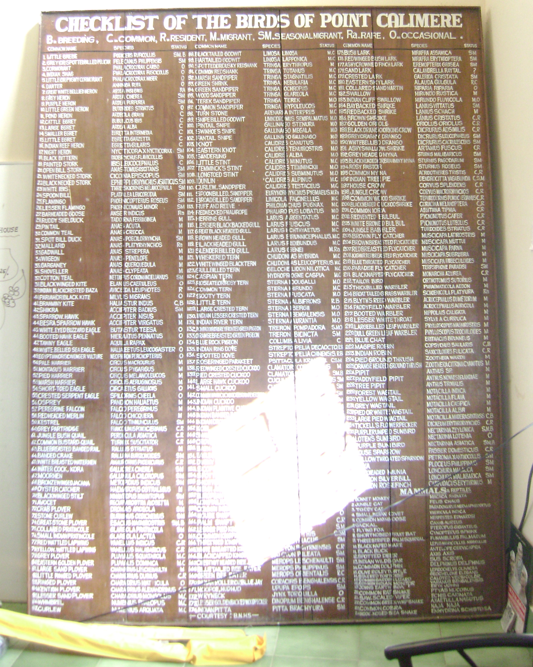 Point Calimere Wildlife and Bird Sanctuary, Checklist of 87 birds sighted